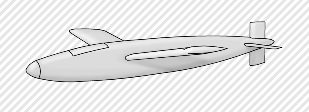 Blohm und Voss Bv 143 sketch